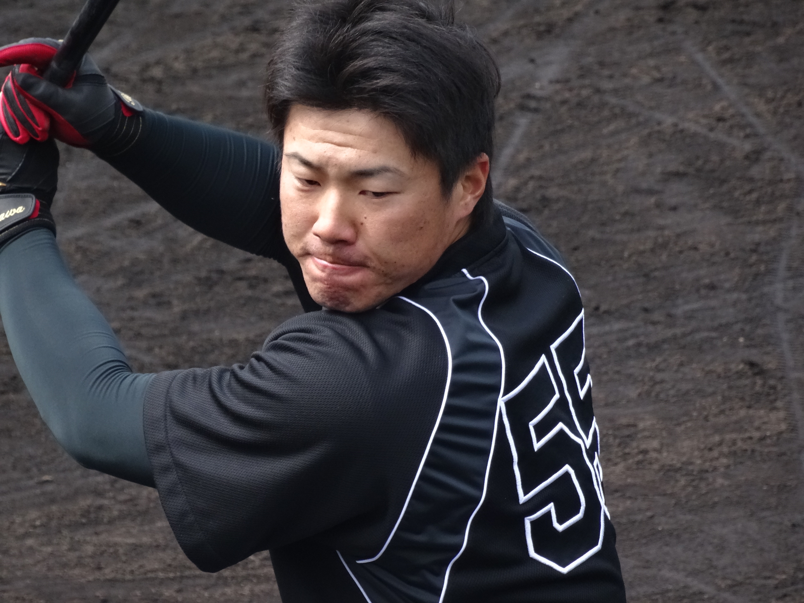 Naomasa Yokawa, infielder of the Hanshin Tigers, at Hanshin Naruohama Baseball Ground